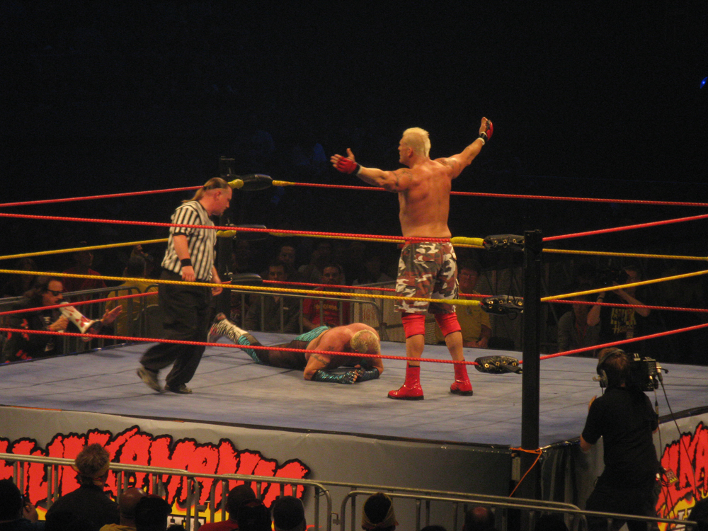 Hulkamania Tour @ Rod Laver Arena. Melbounre, AUS.